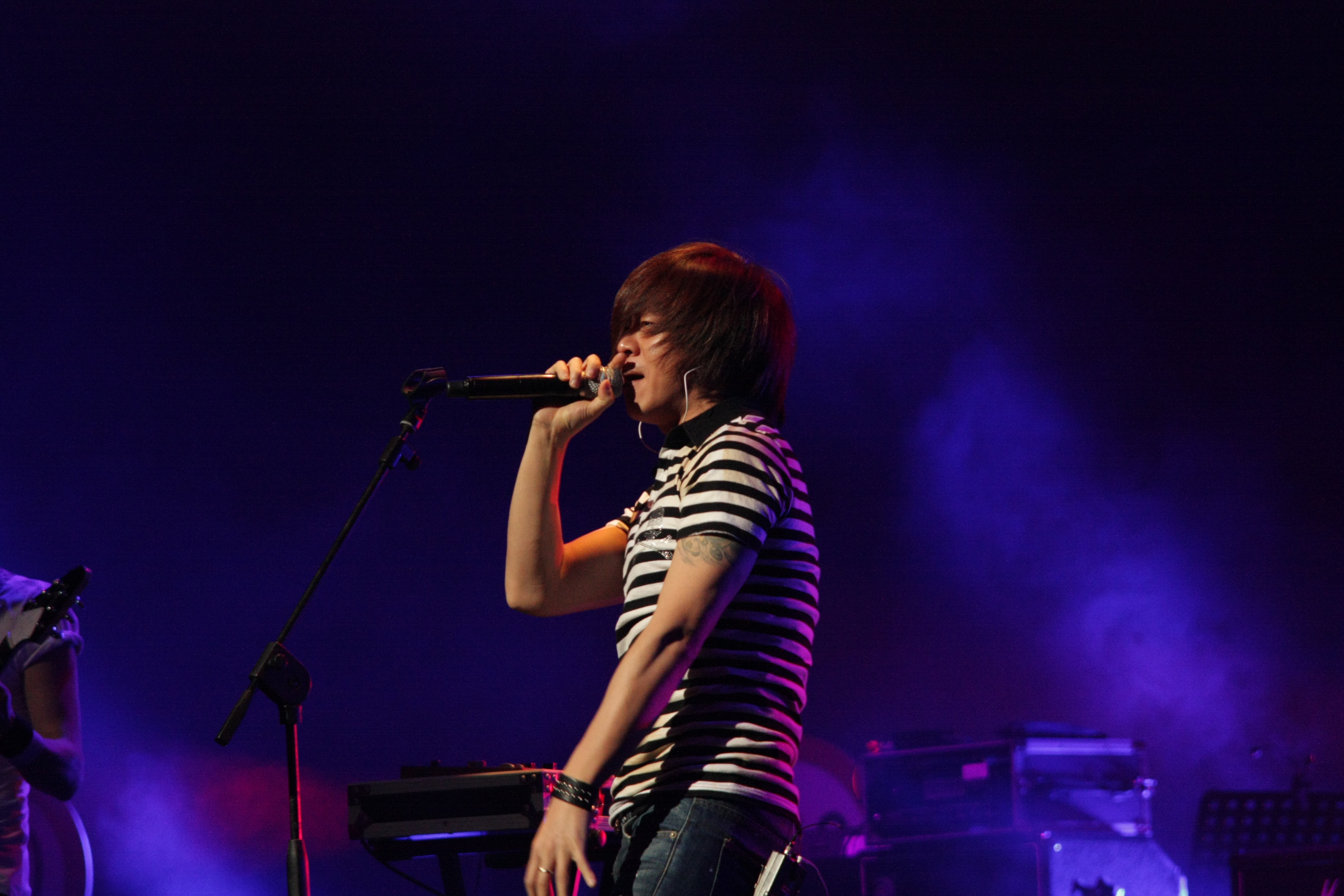 YB (band)